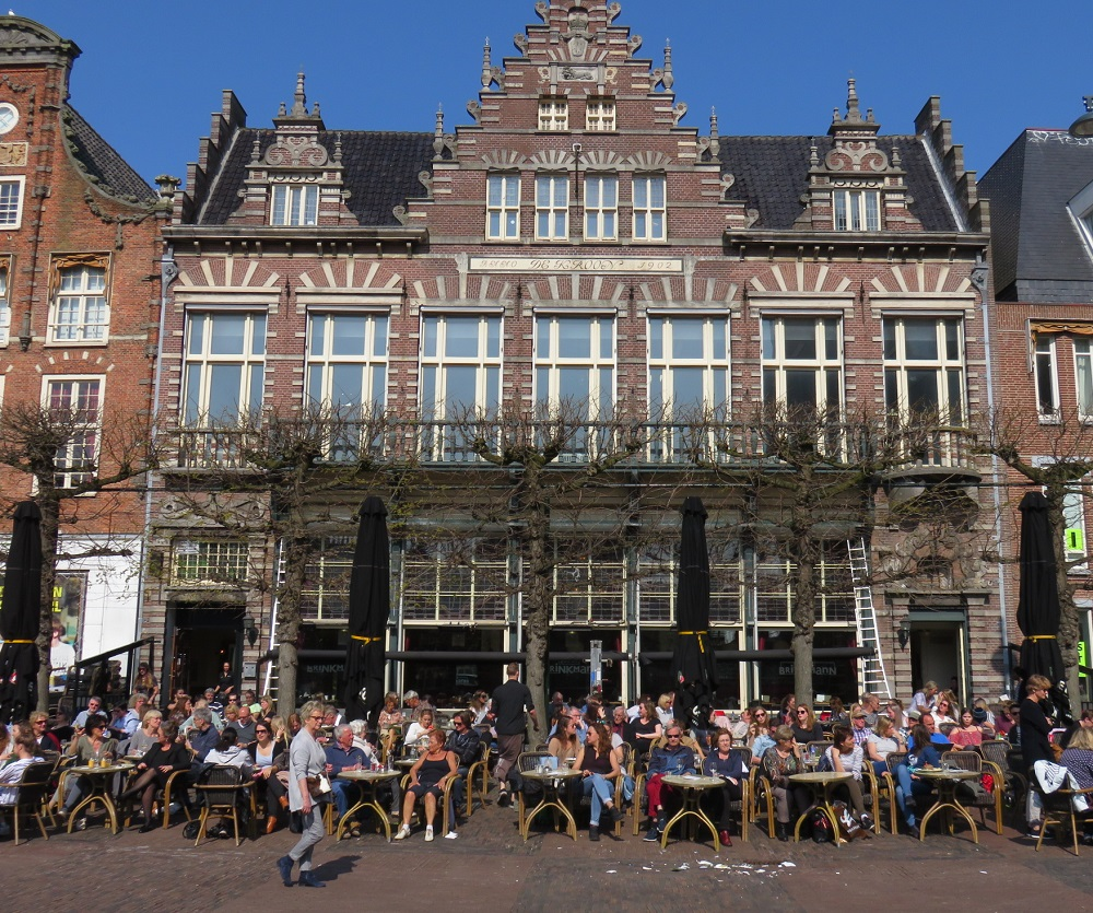 Grand-cafe Brinkmann at Grote Markt 13 in Haarlem, a building that was formerly known as De Kroon (the Crown).